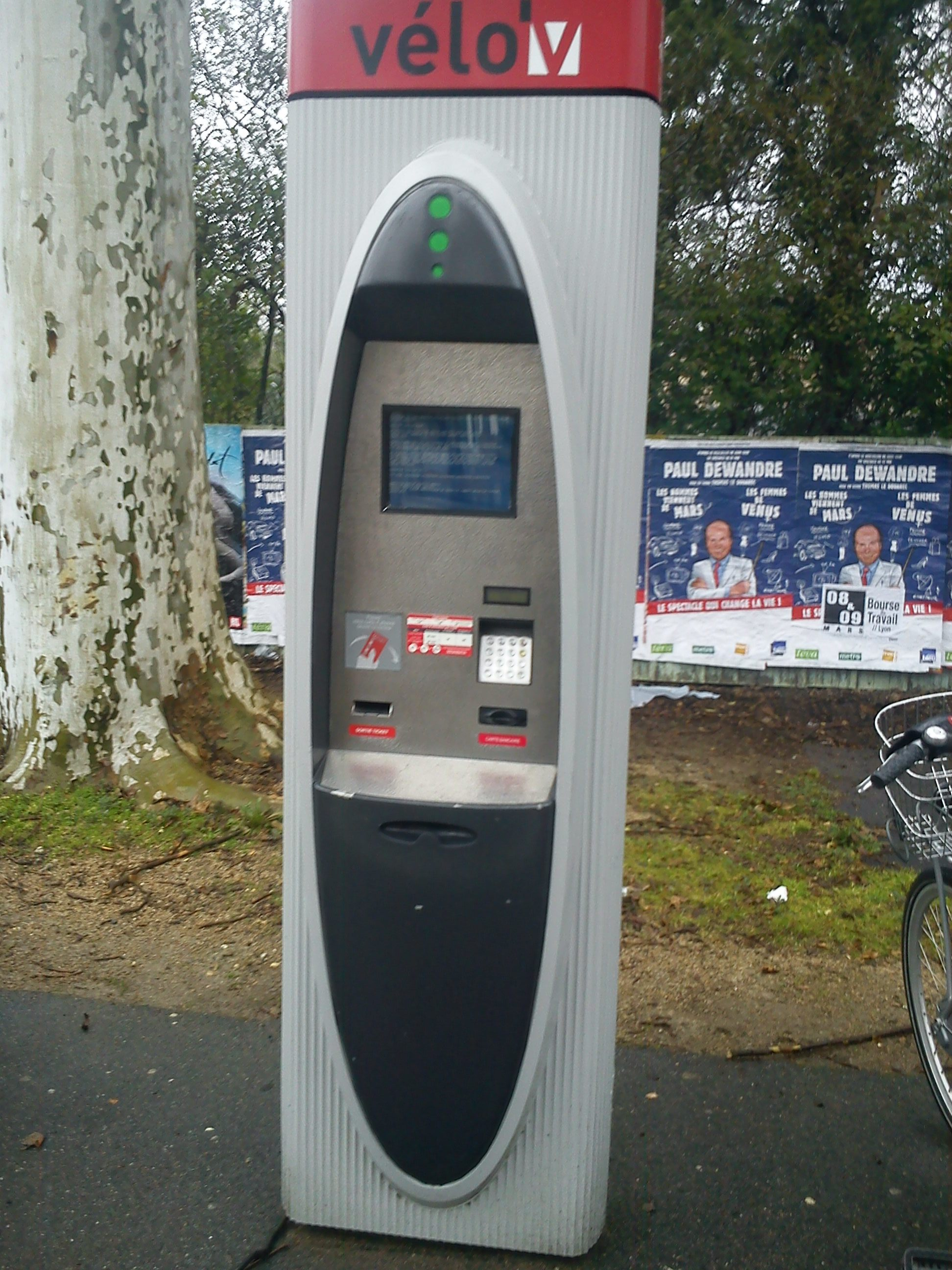 Blue Screen Of Death on a Vélo'v station in Villeurbanne.